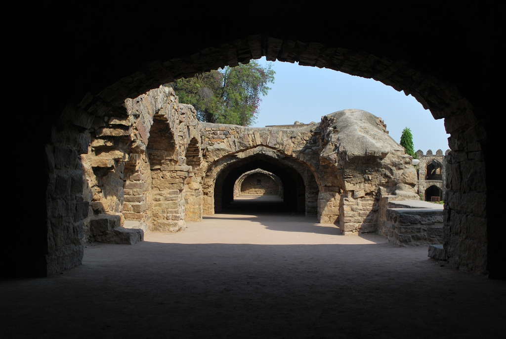 Golconda Fort, Hyderabad